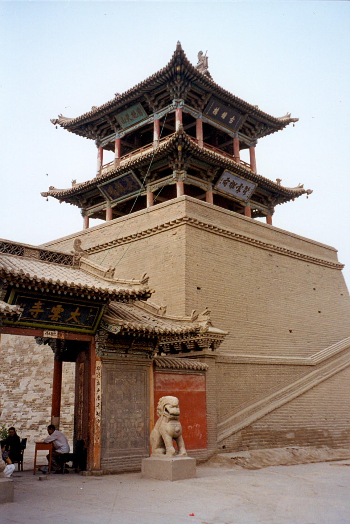 Bell Tower, Wuwei, Gansu, China.